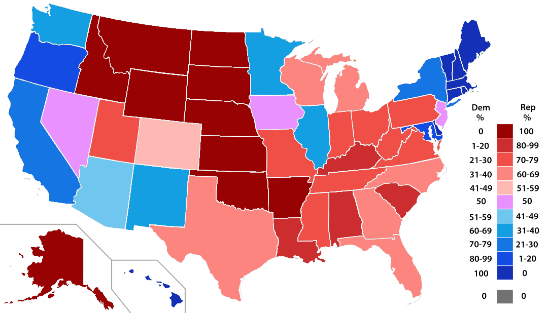 Party compositions of the state delegations in the U.S. House of Representatives